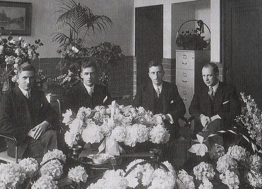 De vier oprichters van het Raadgevend Kantoor voor Organisatie en Efficiency